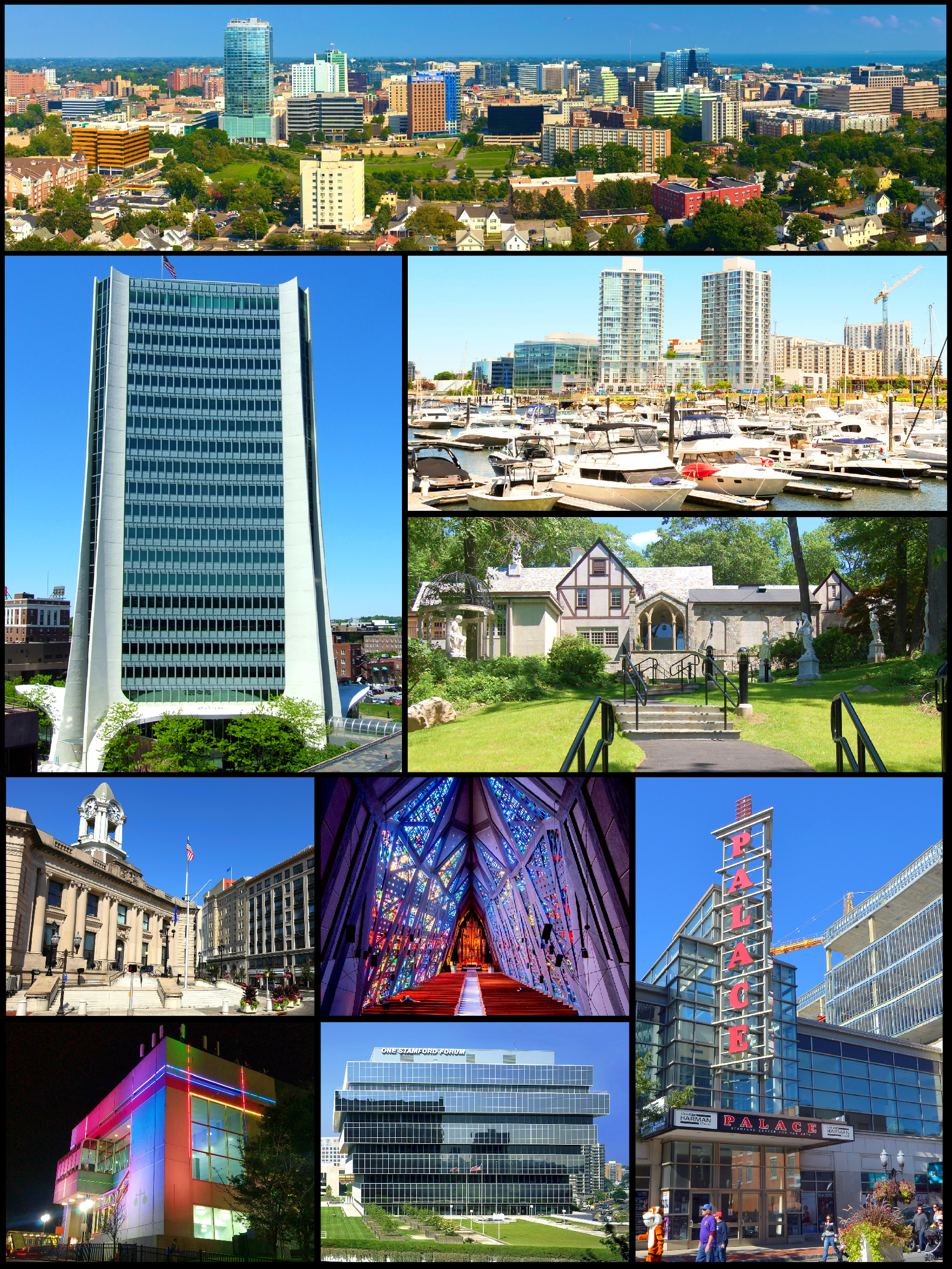 Montage of Stamford, Connecticut File:Stamford Connecticut Skyline Aug 2017.jpg File:Stamford Harbor Point Marina.jpg File:Stamford Museum & Nature Center Bendel Mansion.jpg File:Palace_Theatre_Stamford.jpg File:First Presbyterian Church_Interior.jpg File:One Stamford Forum.jpg File:Stamford CT Old Town Hall.jpg File:Stamford Transportation Center with Lights.jpg File:1 Landmark Square Stamford Connecticut.png